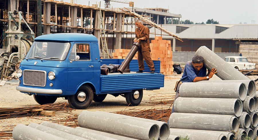 Fiat238Autocarro-1967.jpg